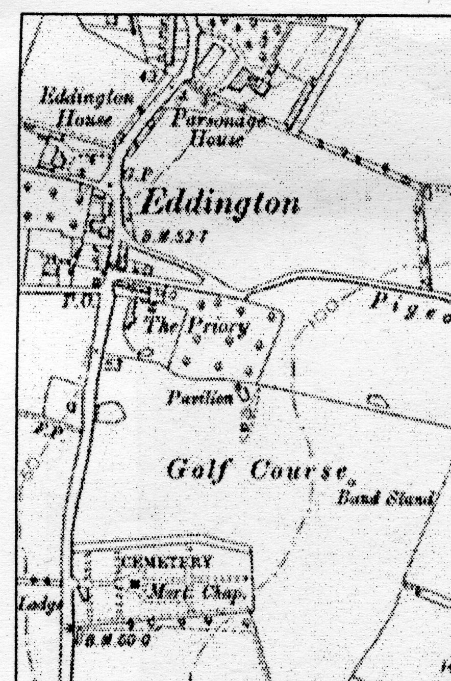 Part of 1908 OS map (inch-map; England and Wales sheet) of Eddington and Herne in East Kent, England.